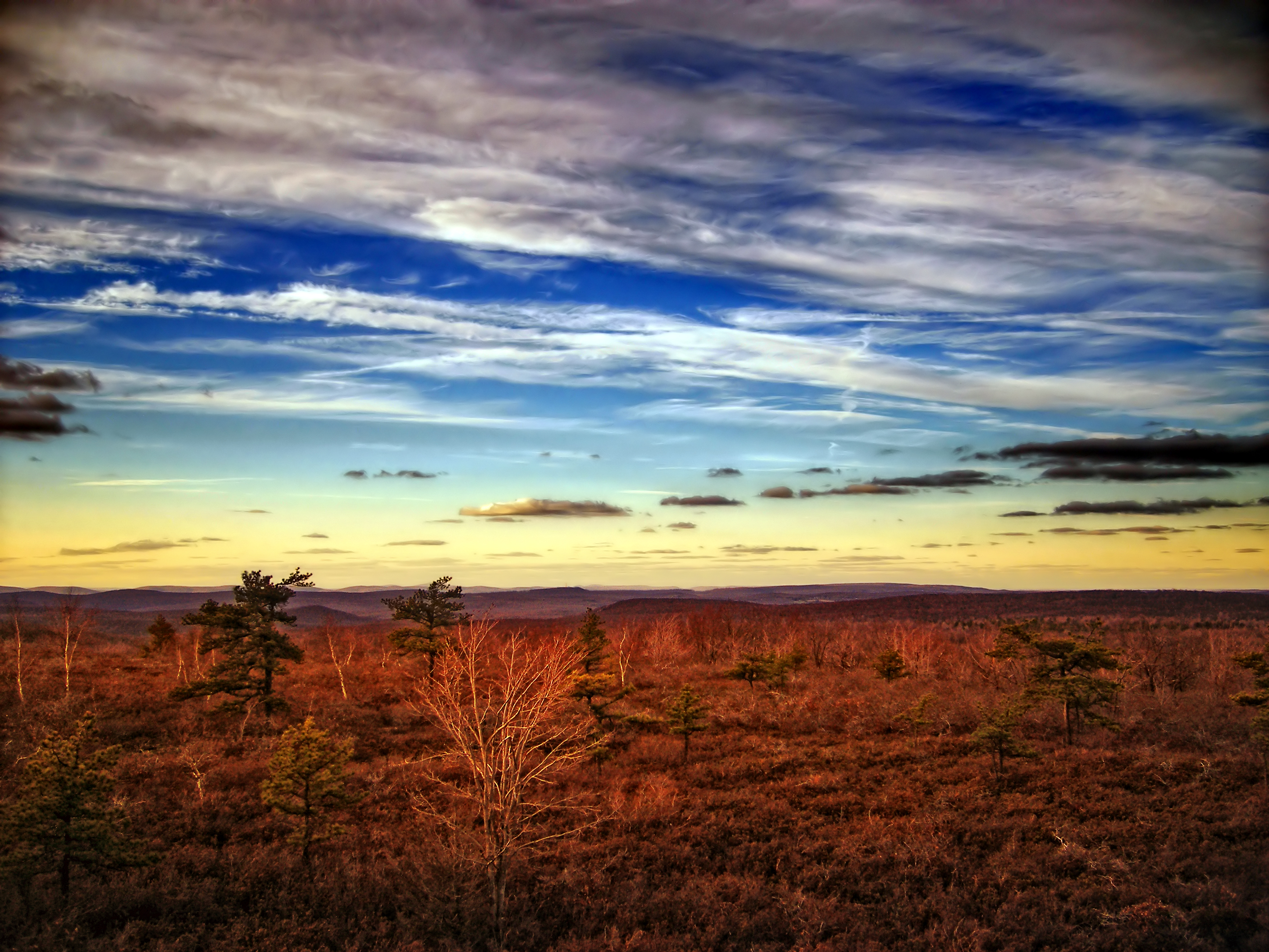 Northerly view from Pine Hill (elevation approximately 2265 feet [690 meters]), Lackawanna State Forest, Luzerne and Lackawanna Counties. (Another shot here.) The hill, forming a slight rise on the otherwise mostly level Pocono Plateau, supports pitch pine, scrub oak, heaths, and other barrens-type vegetation that can withstand the high altitude, severe weather, and acidic soils of the region.